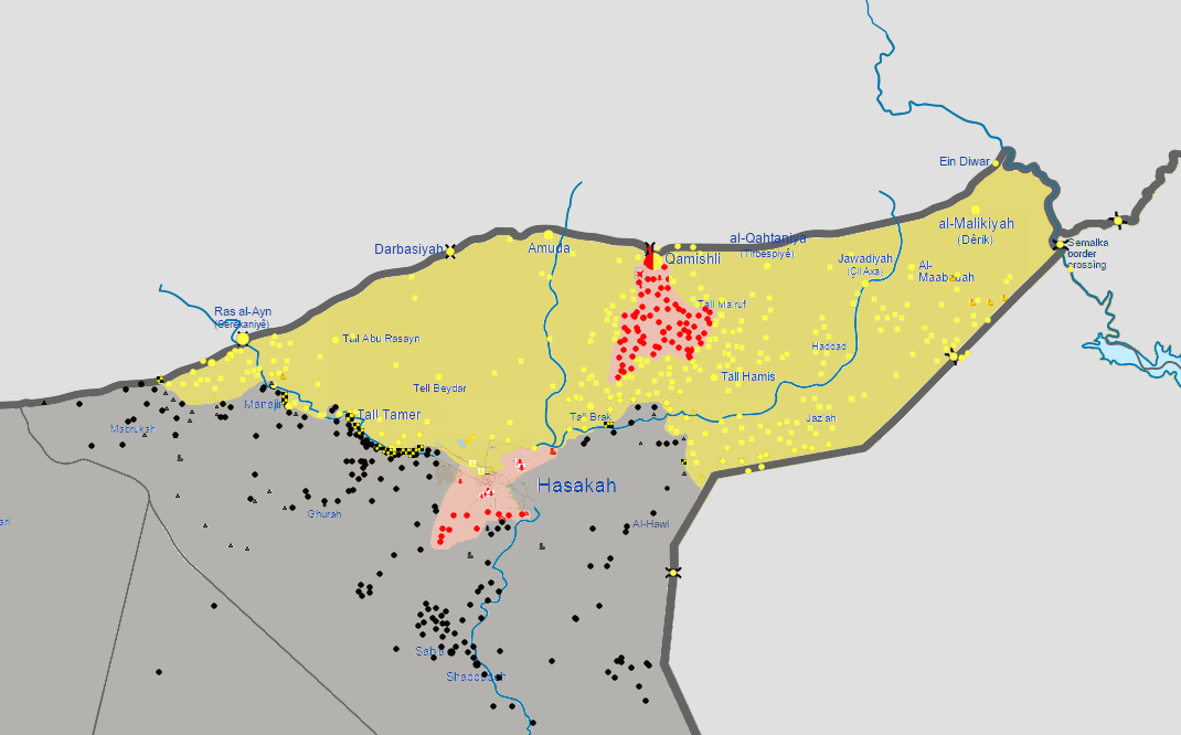 Map of the maximum territorial gains made by ISIL in the Al-Hasakah Governorate during their Khabur Valley offensive, by mid-April 2015.